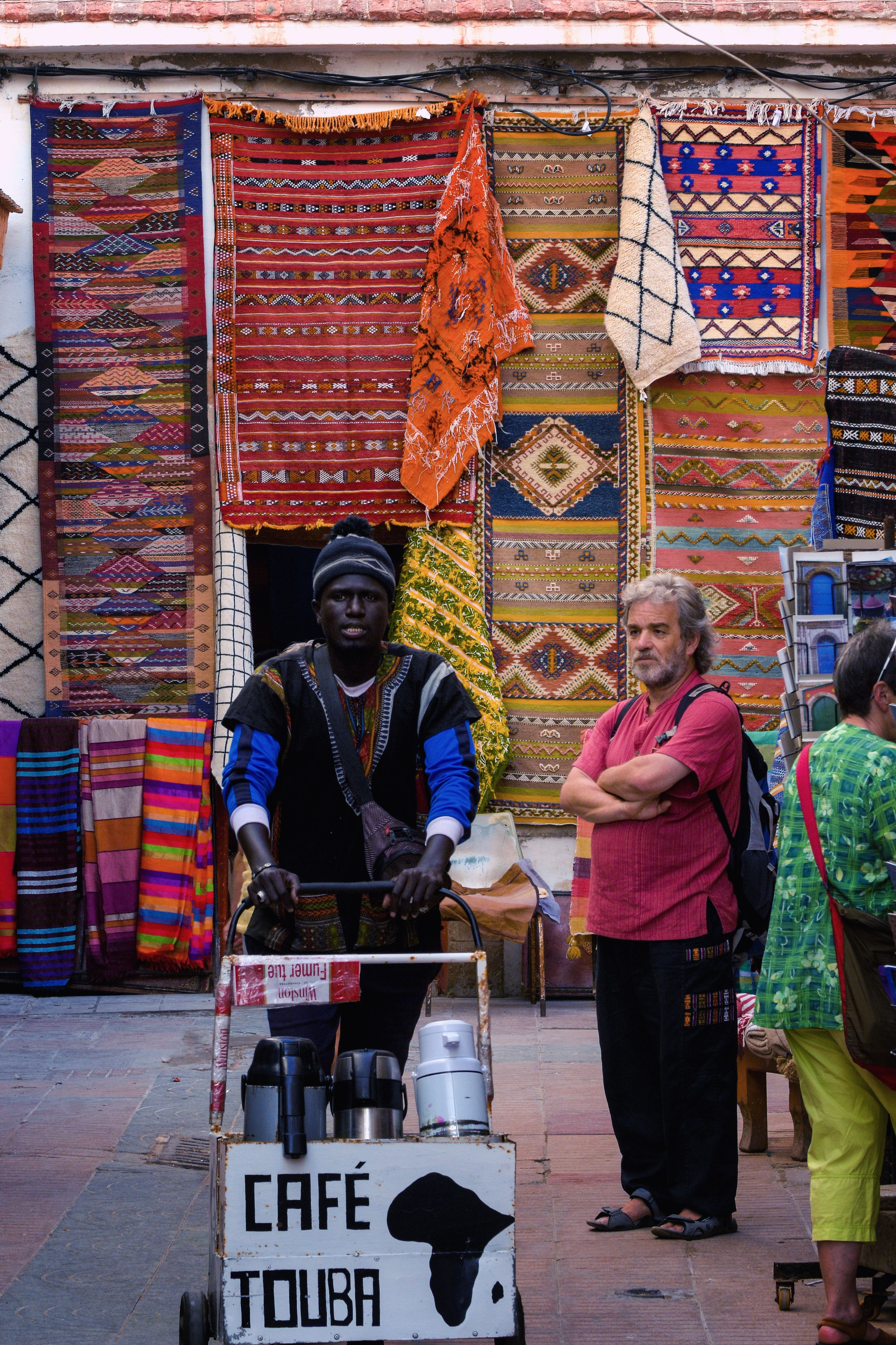 Picture from a series captured in October 2017 in Marocco showing some of the daily activities of the people in Essaouira and Marrakech This is an image of "African people at work" from Morocco